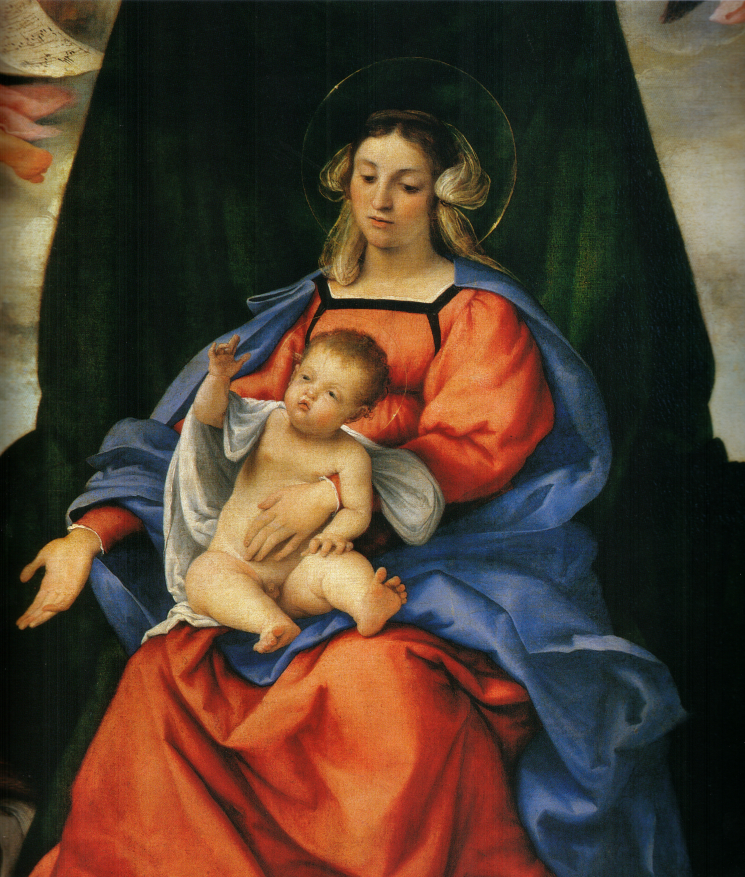 detail: Madonna and Child